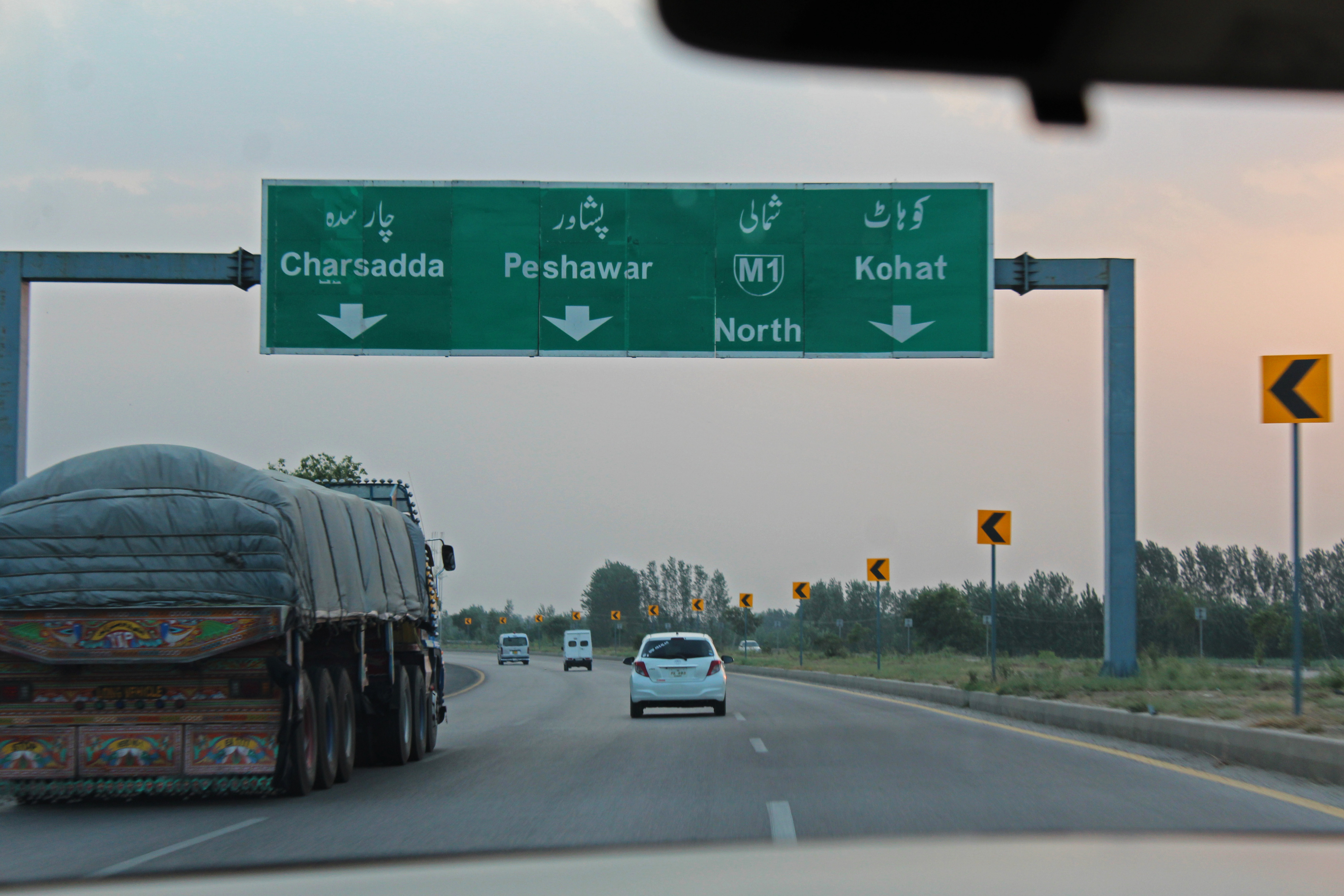 M1 motorway westbound. On way to Peshawar